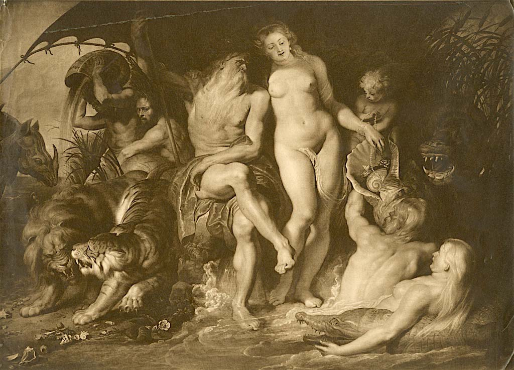 'Neptune and Amphitrite', by Peter Paul Rubens (c. 1614), a painting possibly destroyed in the Friedrichshain flak tower fire in Berlin, at the end of the Second World War (May 1945). The painting belonged to the collections of the Kaiser-Friedrich-Museum, now the Bode-Museum of Berlin.